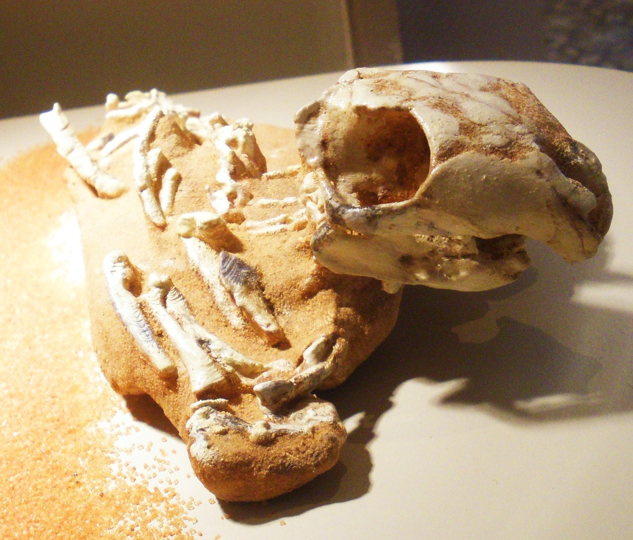 Fossil of a multituberculate from Gobi Desert, probably Catopsbaatar knowing its size. Photo taken at the Museum of Natural History, Brussels